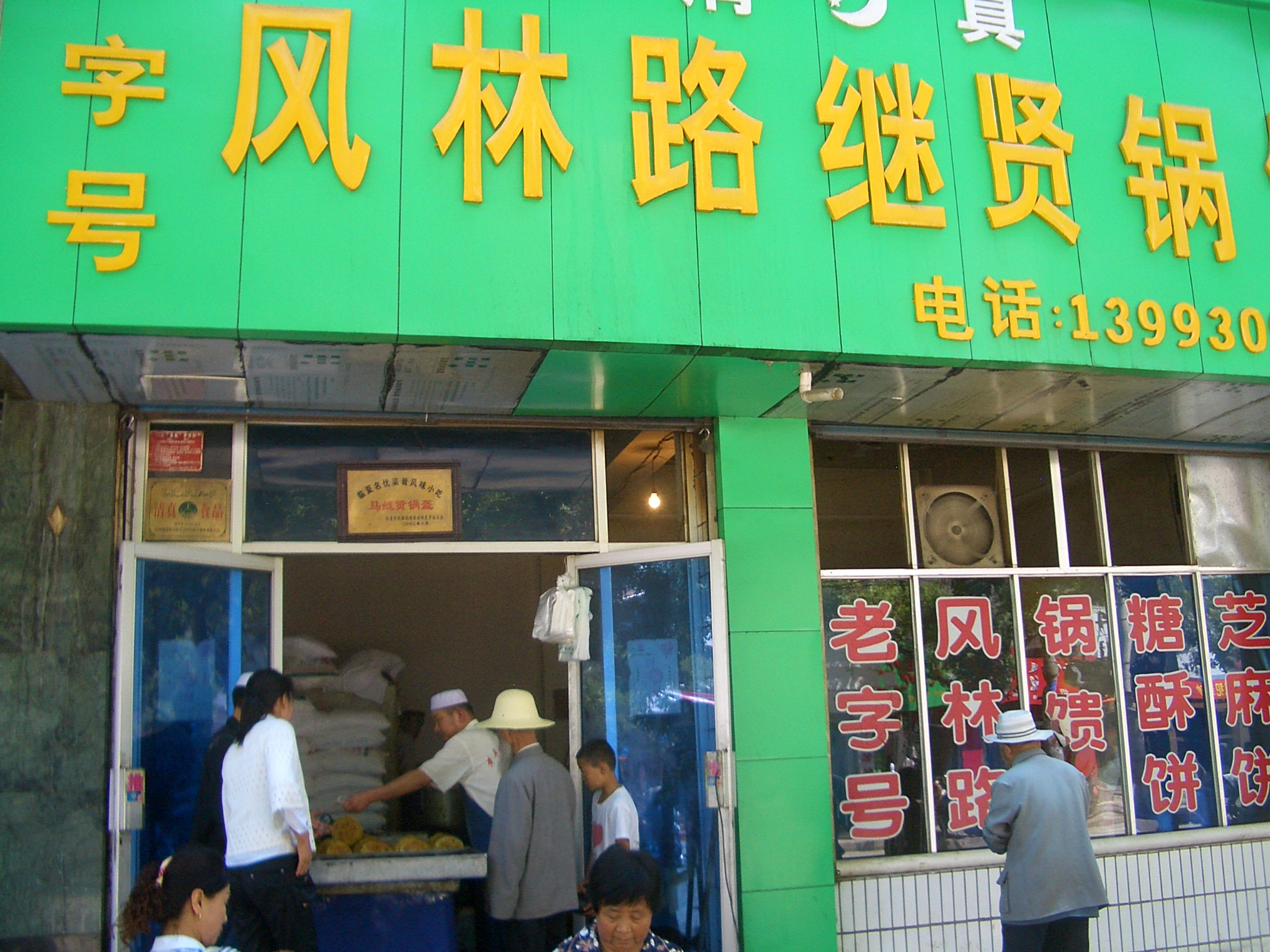 A Halal Bakery in Tuanjie St, the main street of Linxia City